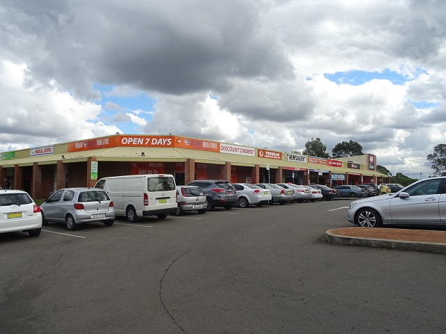 Small shopping centre in Tregear, NSW